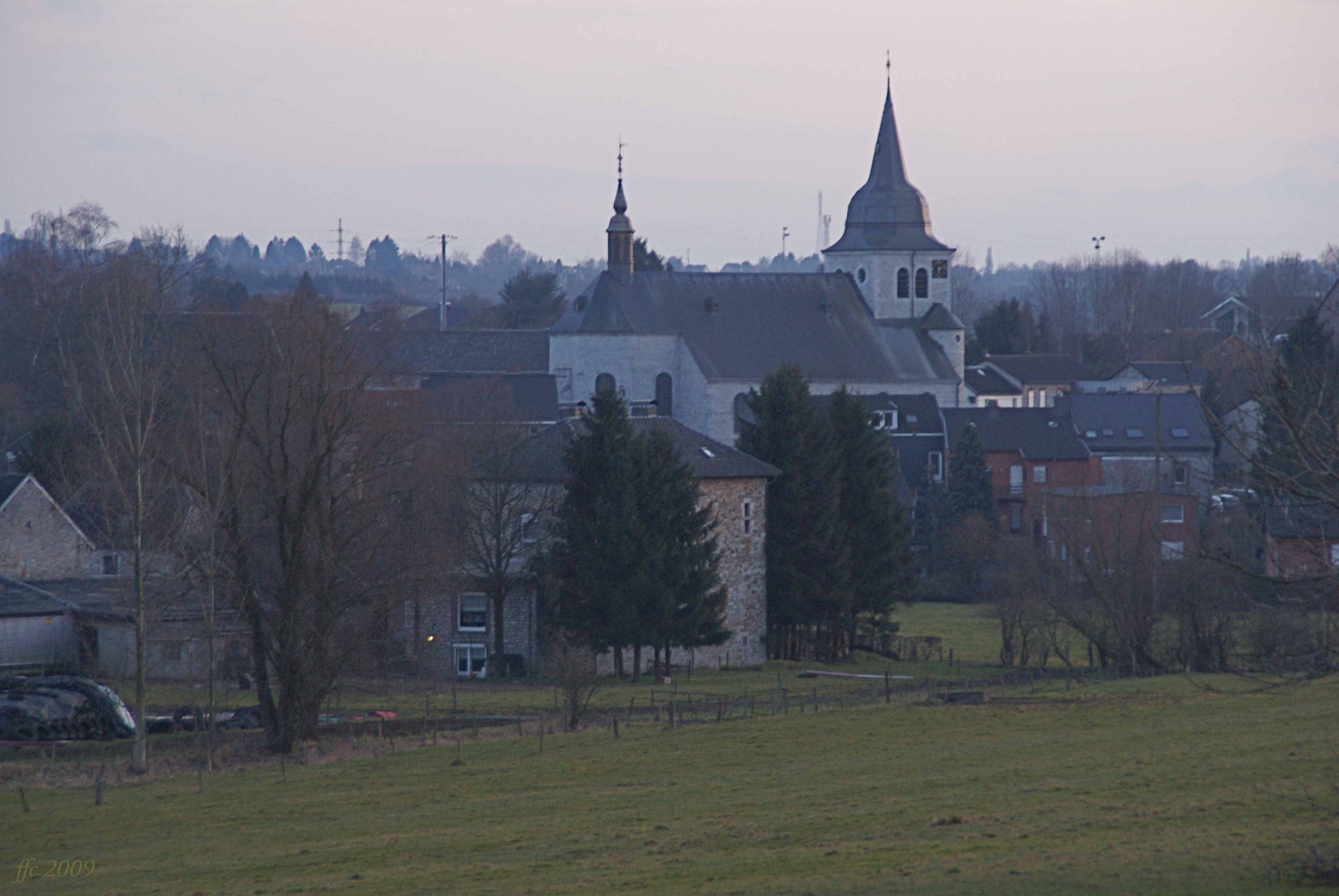 Lontzen (Belgium): evening panorama